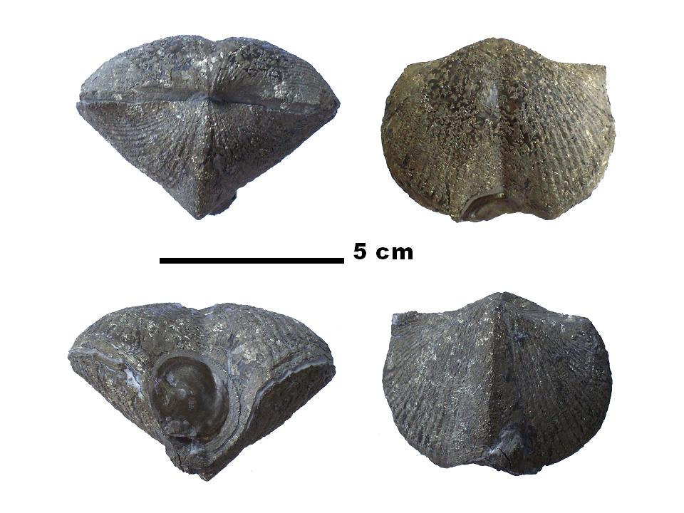 Paraspirifer bownockeri. Specimen from the Silica Shale, Middle Devonian, Ohio (USA)